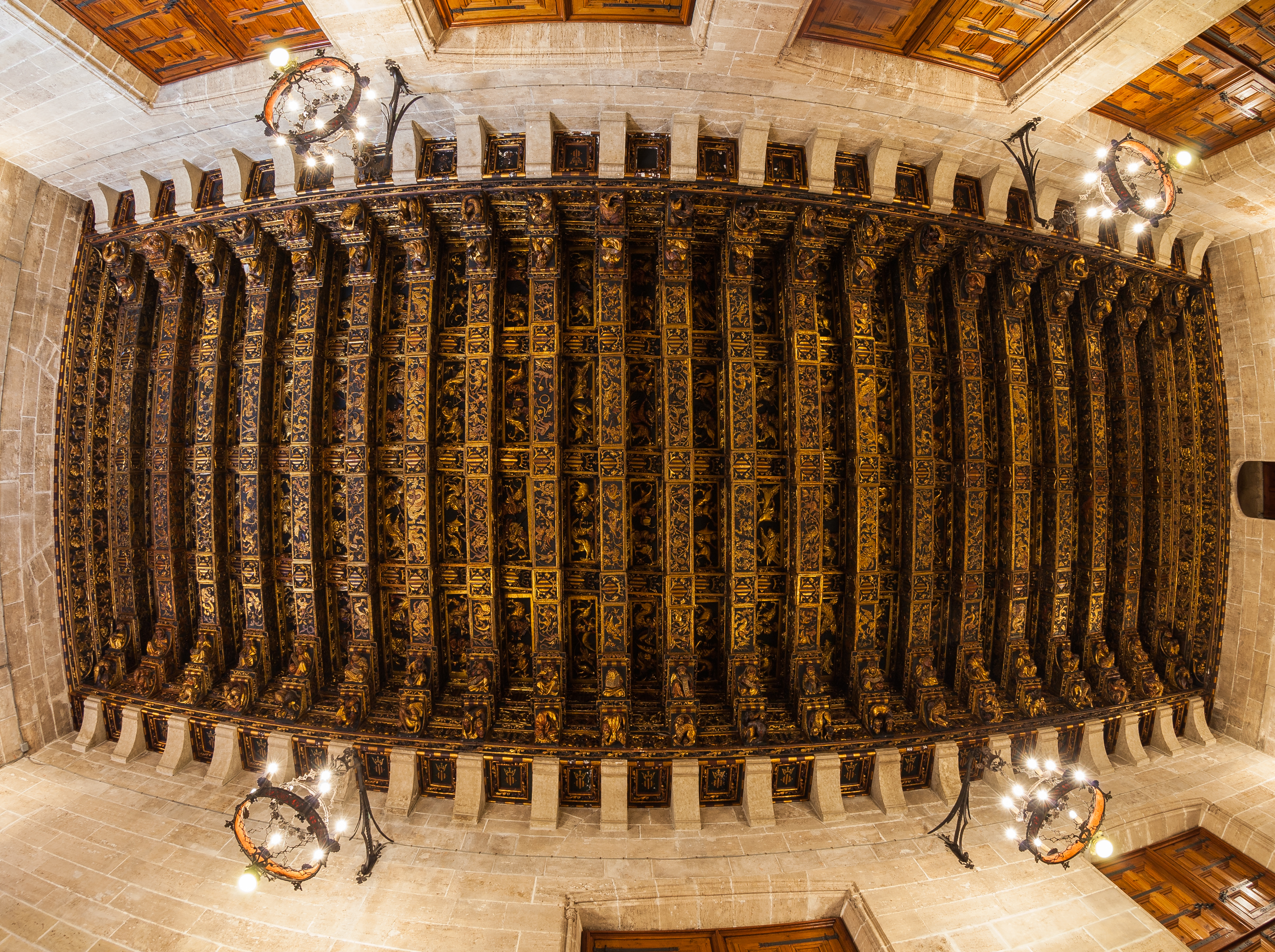 Consulate of the Sea, Silk Market, Valencia, Spain